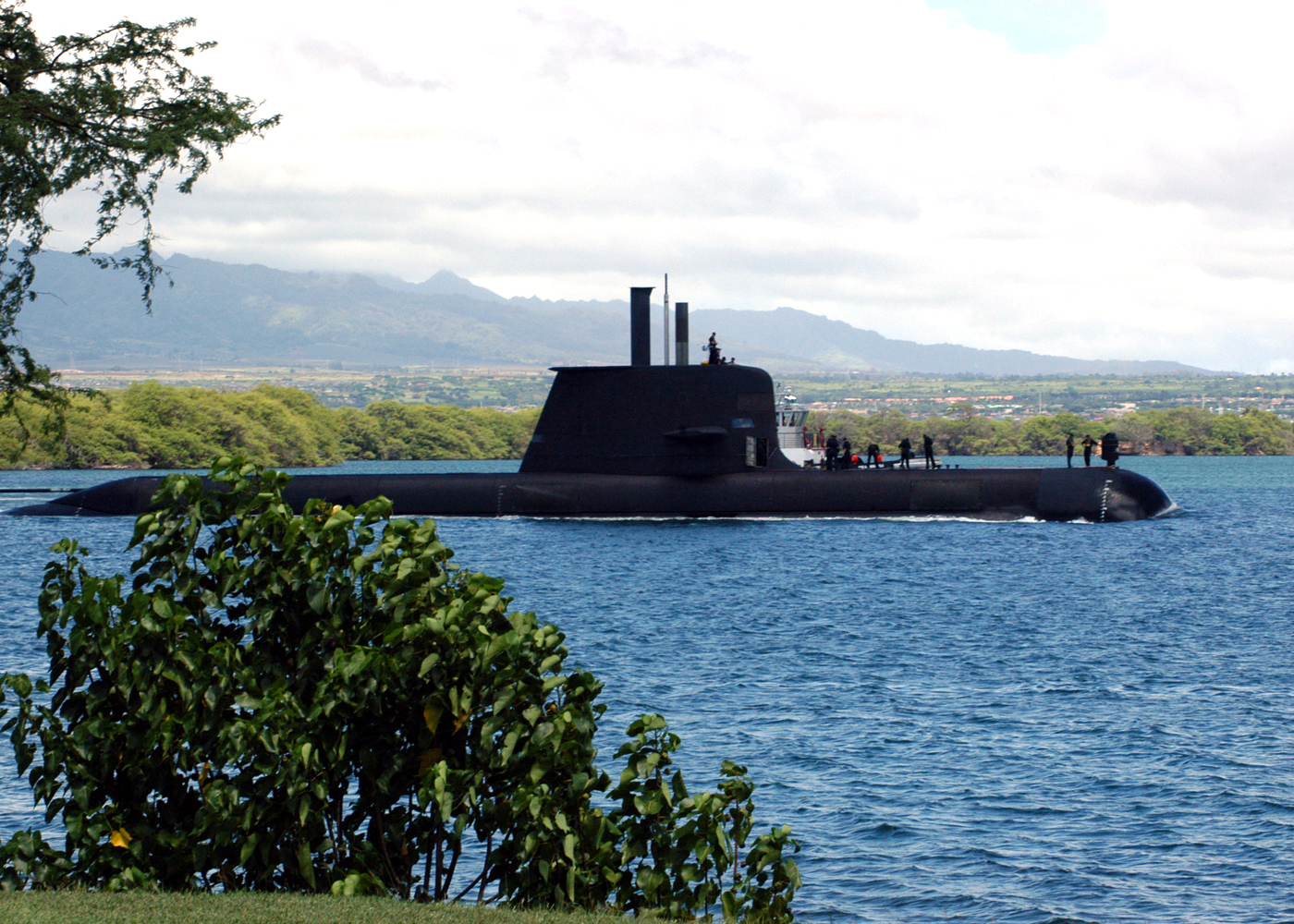 Pearl Harbor, Hawaii (Aug. 23, 2004) – The Australian Collins-class submarine, HMAS Rankin (SSK 78), enters Pearl Harbor for a port visit after completing exercises in the Pacific region. Rankin is currently testing the deployment of women on submarines after completing modifications to the boat. On Dec. 12, 1992, the Minister for Defense Science and Personnel announced that women would be eligible for service in the Collins-class submarines after a Submarine Integration Study (SIS). U.S. Navy photo by Journalist Seaman Ryan C. McGinley (RELEASED)